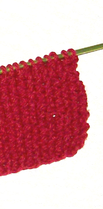 Knitting